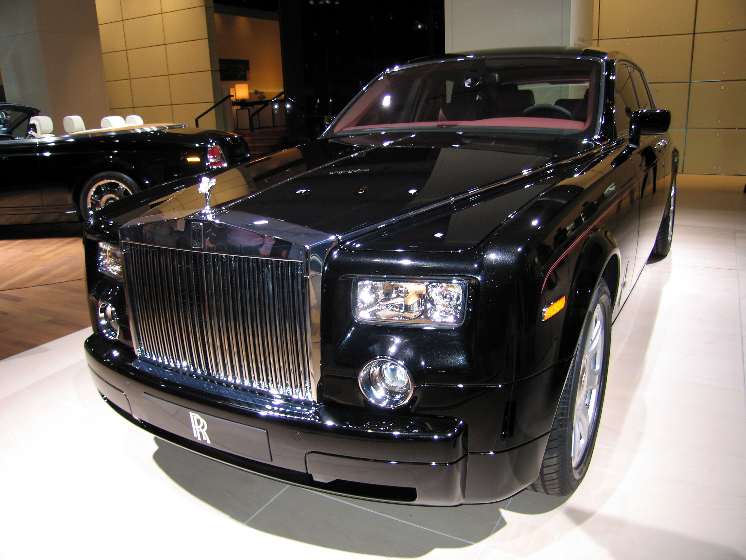 Rolls-Royce Phantom at the IAA 2007